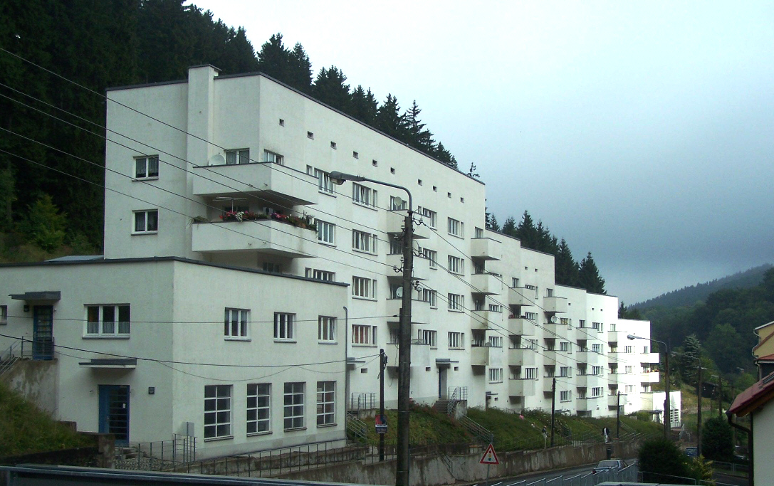 Buildings in Bauhaus design in Ruhla